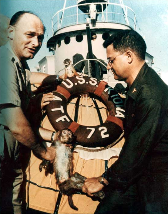 Able and Miss Baker, the first two primates who survived a space travel, after the rescue aboard the USS Kiowa.